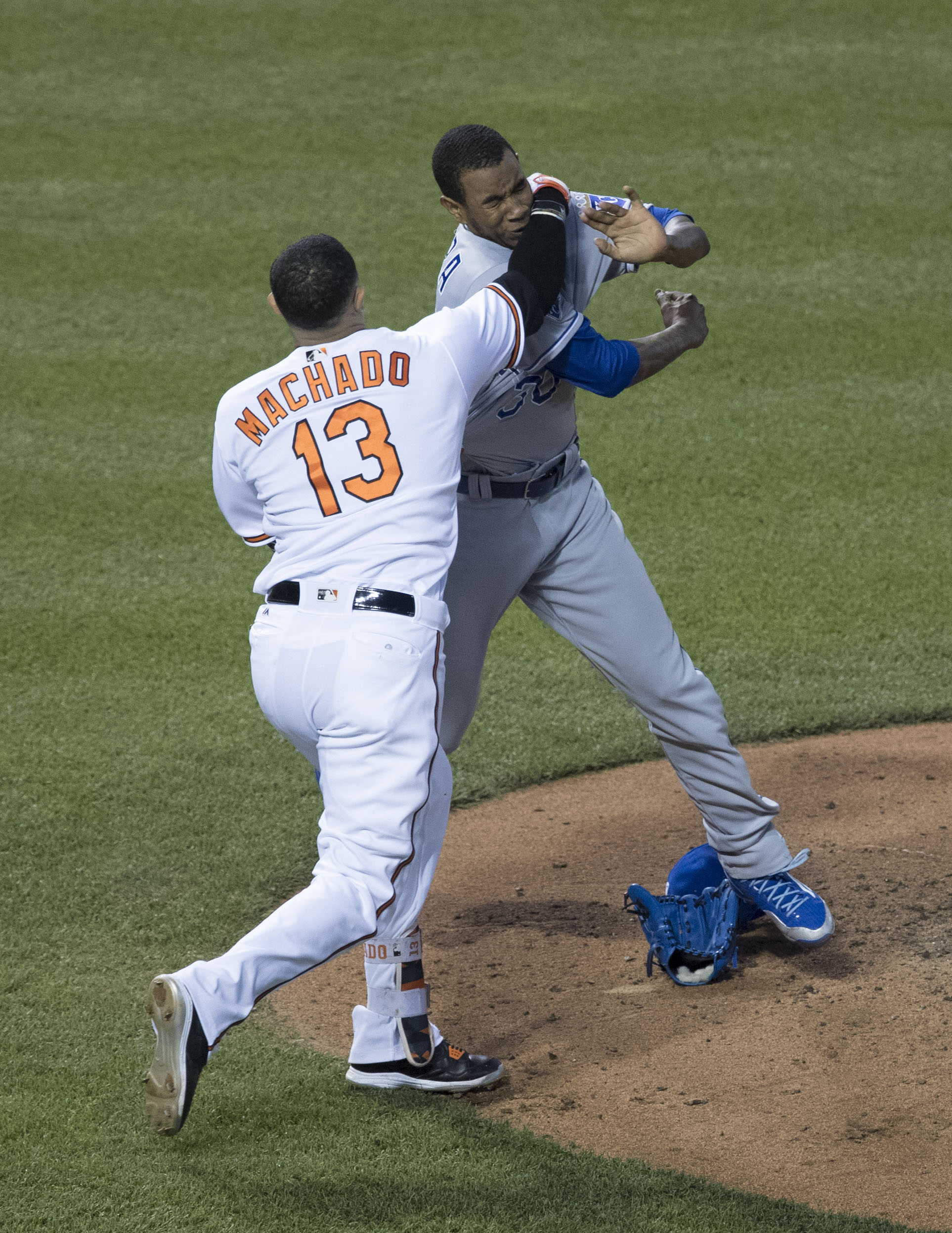 Manny Machado of the Baltimore Orioles punches Yordano Ventura of the Kansas City Royals during a game at Oriole Park at Camden Yards on June 7, 2016 in Baltimore, Maryland.